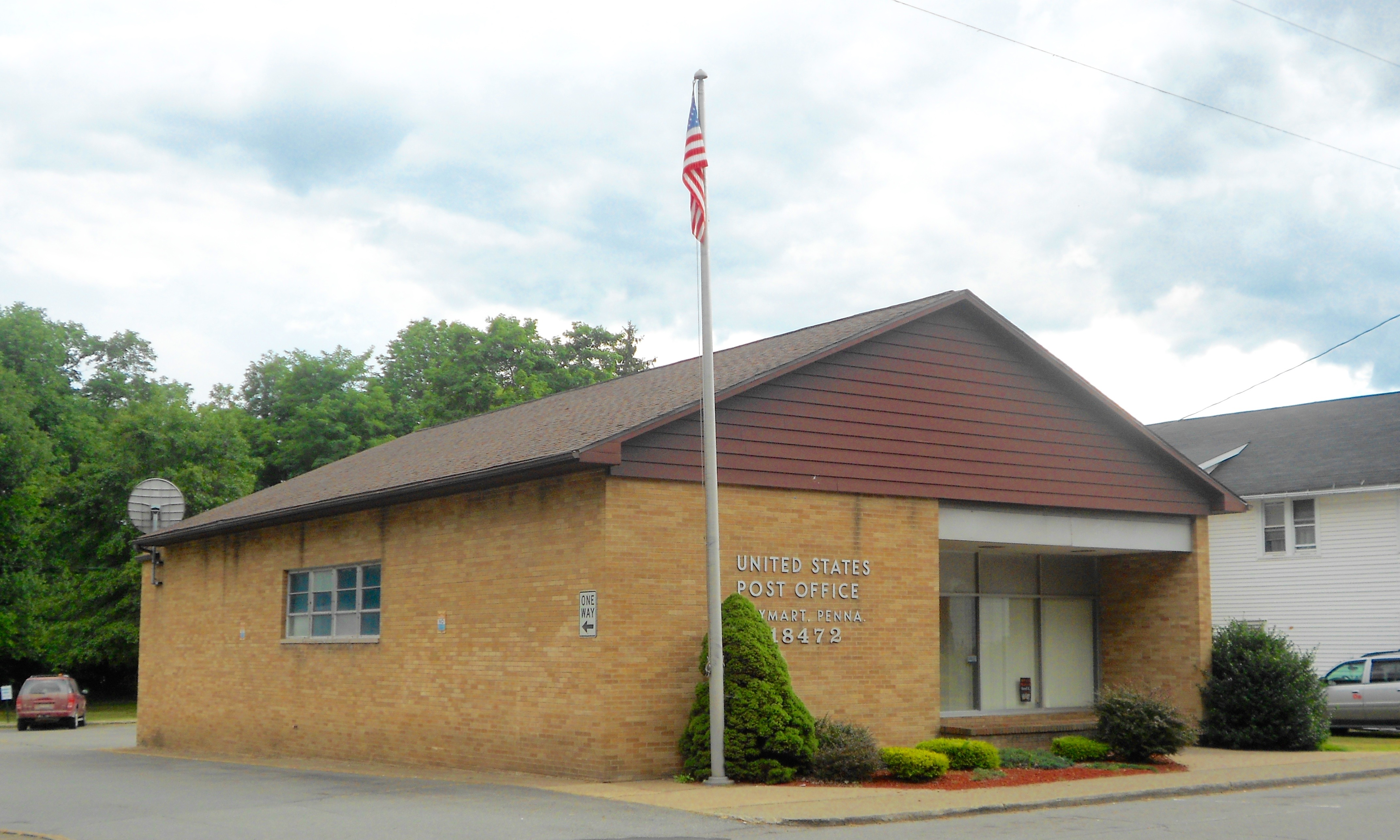 United States Post Office in Waymart, Pennsylvania. Zipcode 18472